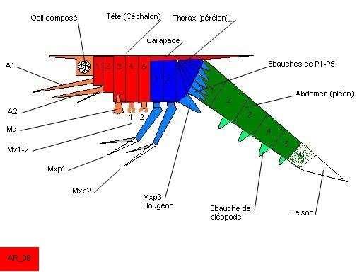 Zoea. Organization(schematic)